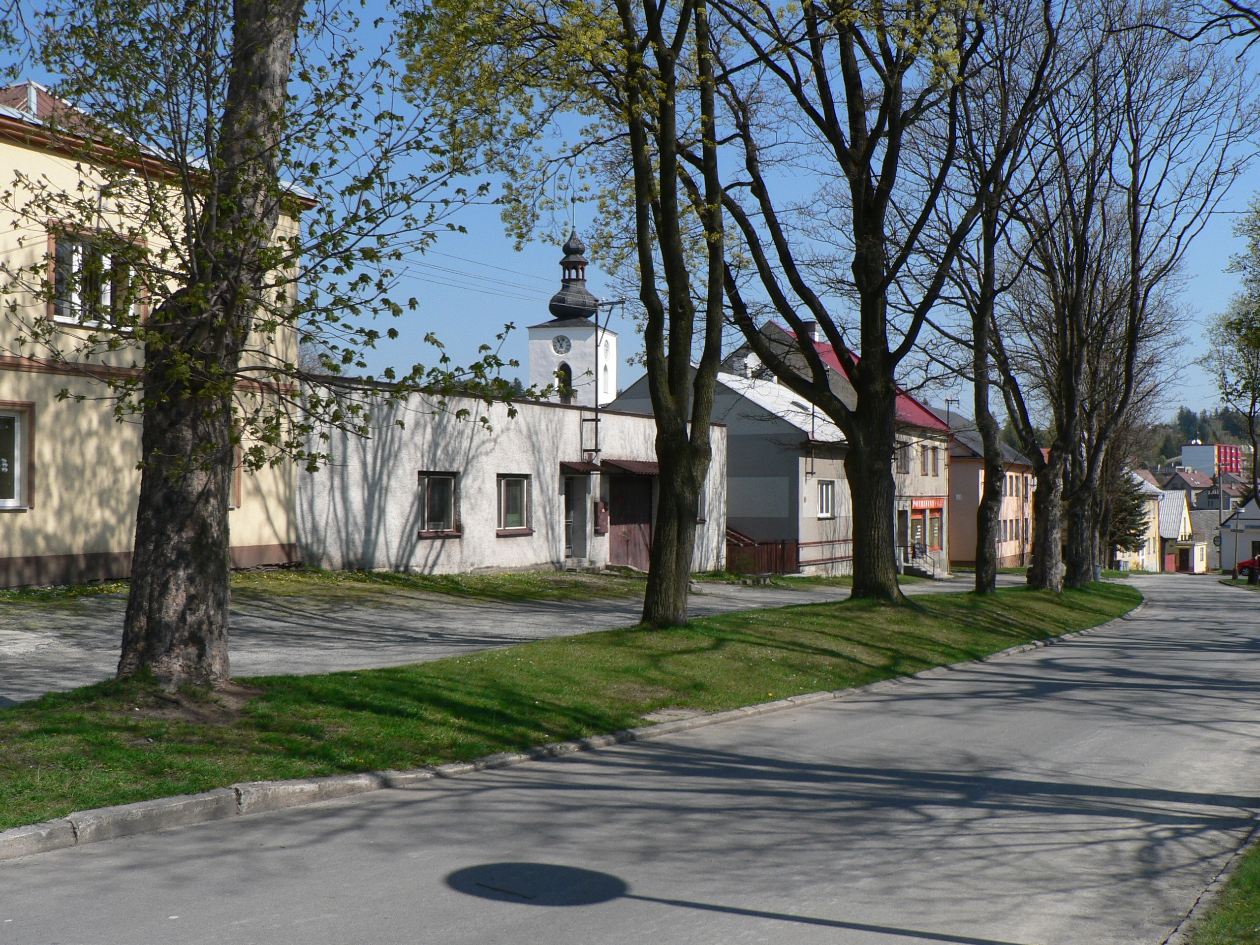 Břidličná, Bruntál District, Czechia.